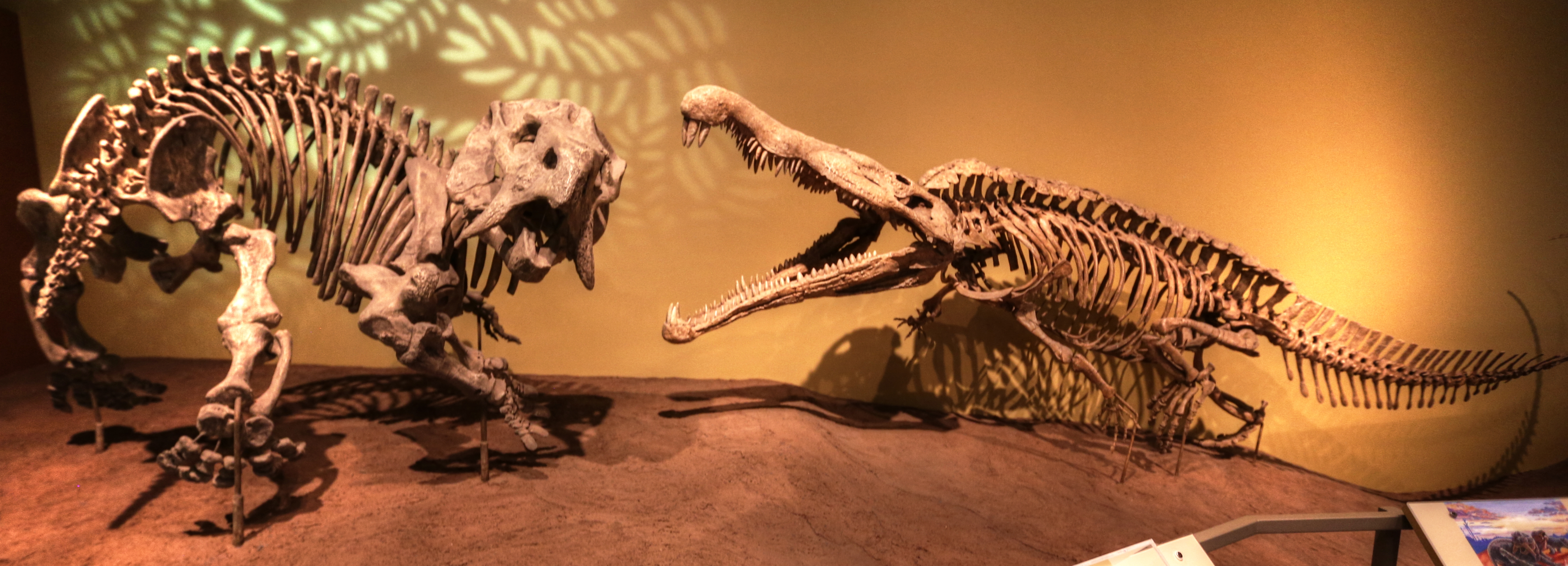 Family visiting museum.